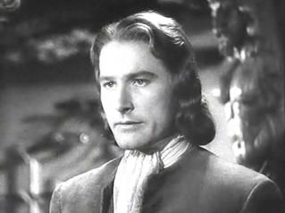 Cropped screenshot of Errol Flynn from the trailer for the film Captain Blood